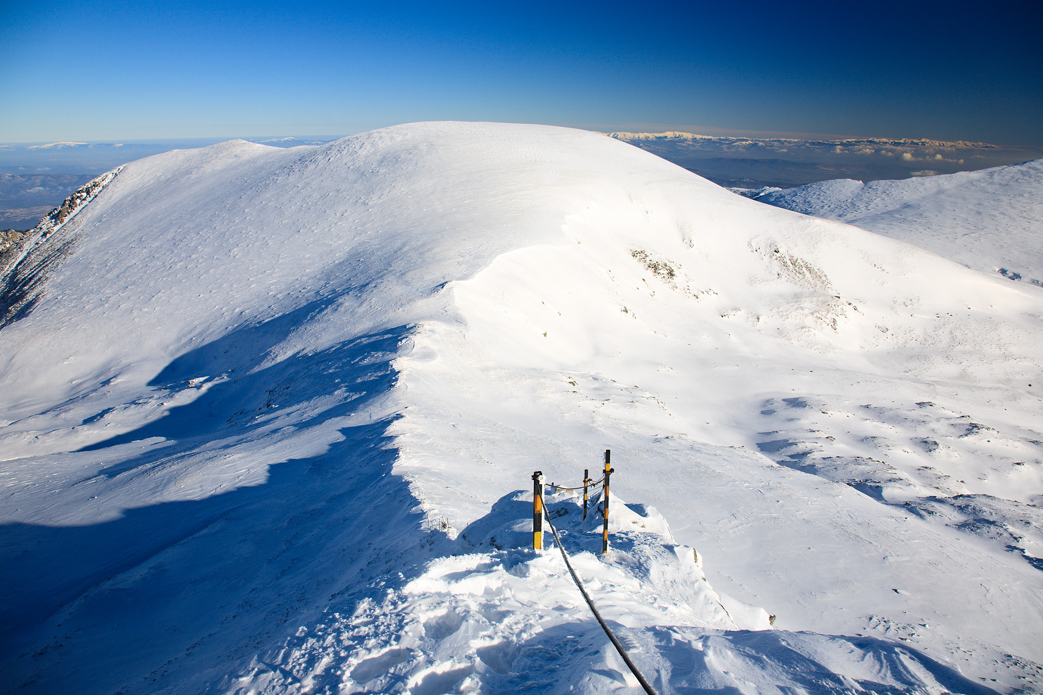 Ravni chal summit in Rila mountain. Picture shot from the nearby Sivrichal summit